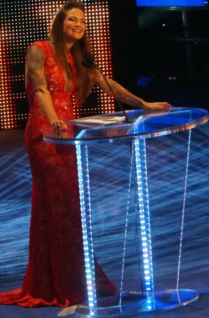 Former WWE superstar Lita performing her speech during her 2014 Hall of Fame induction in April 6, 2014.